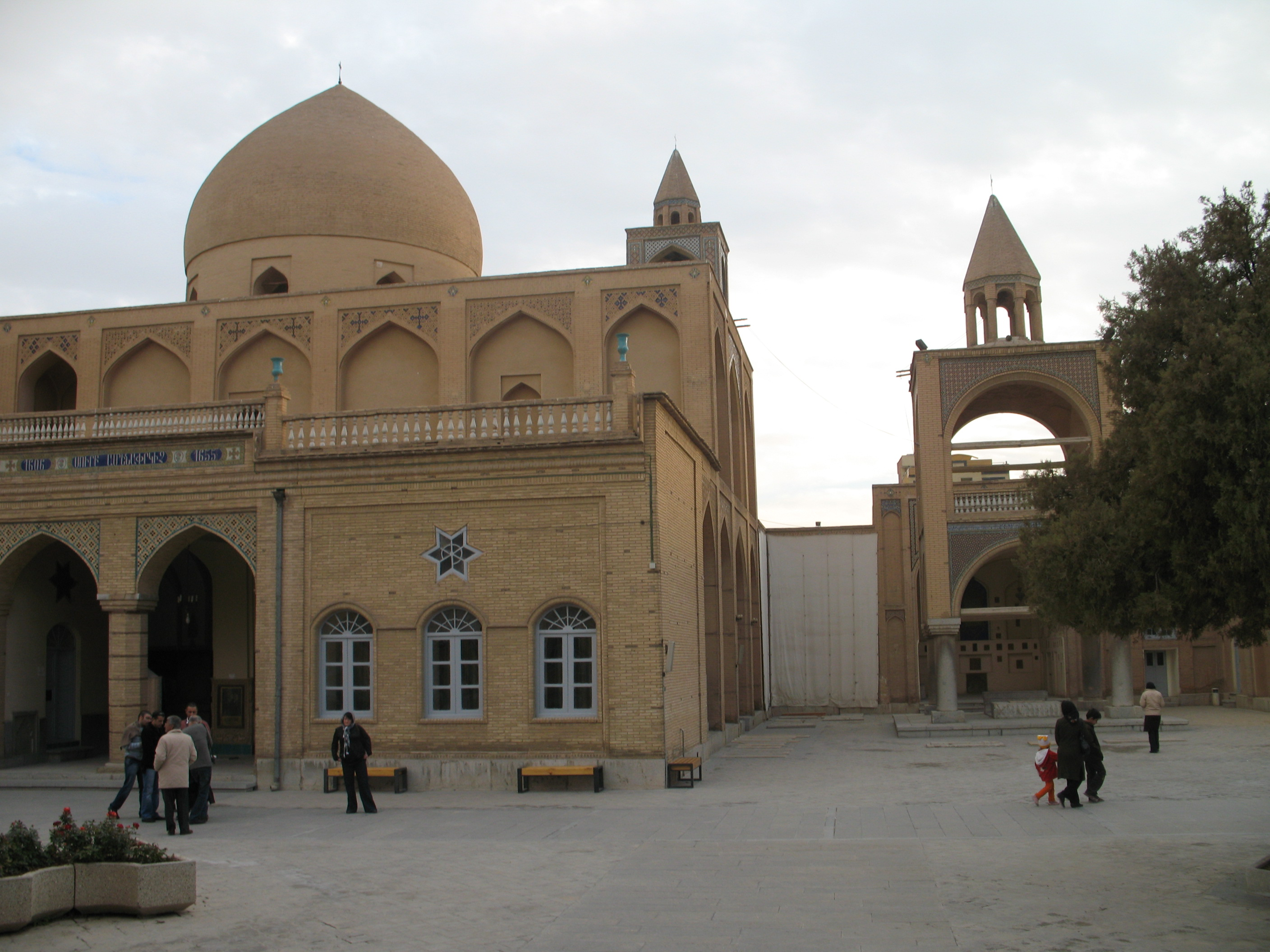 Christian church in Esfahan Iran